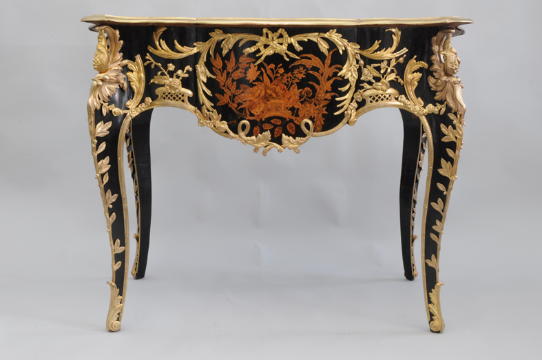 The Spindler desk in the New Palace in Potsdam.